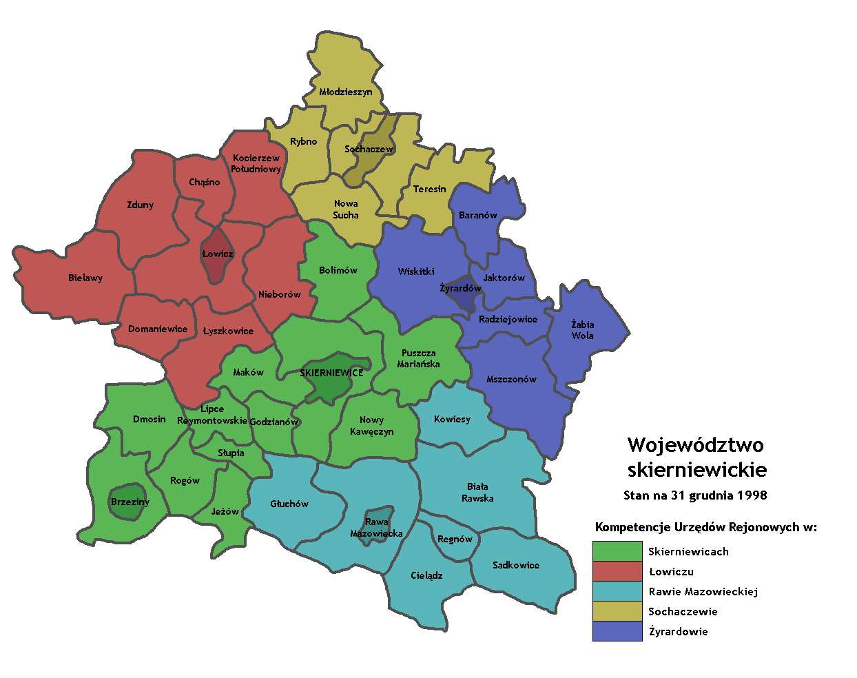 Map of the Skierniewice voivodeship in the last day of its existence (31 december 1998).